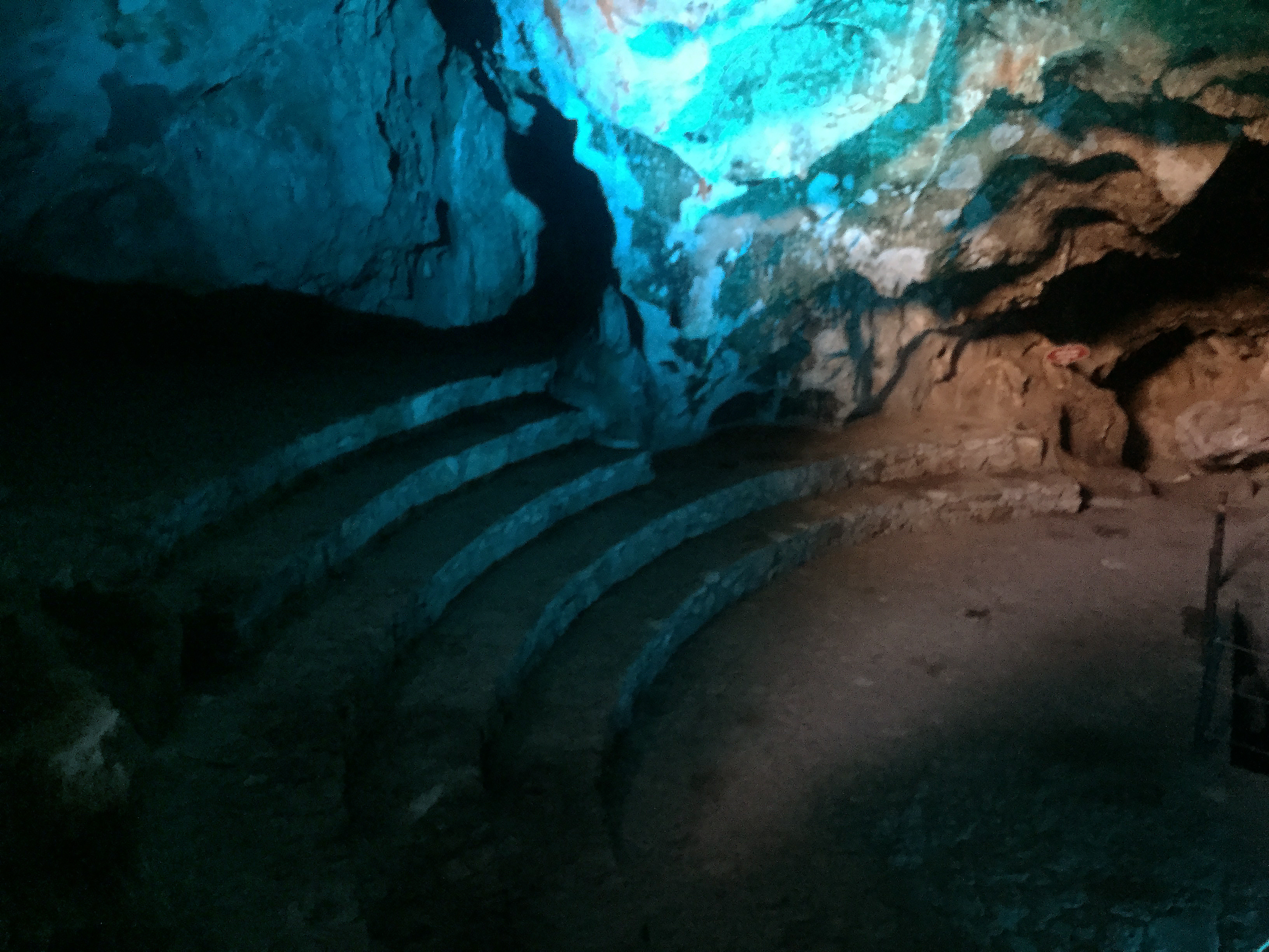 Concert hall lit up by LED lights, built inside the Xoxafi Caves , in the municipality of Santiago de Anaya, Hidalgo, Mexico